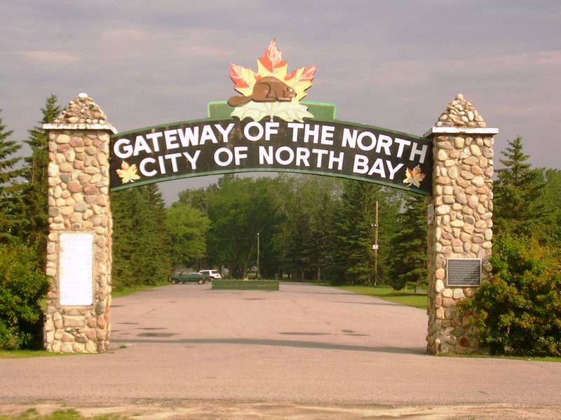 North-Bay boasts of being The Gateway to Nothern Ontario.